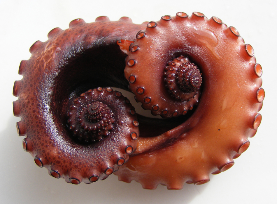 Octopus, simmered for an hour in a stock made from panfried onions and water.